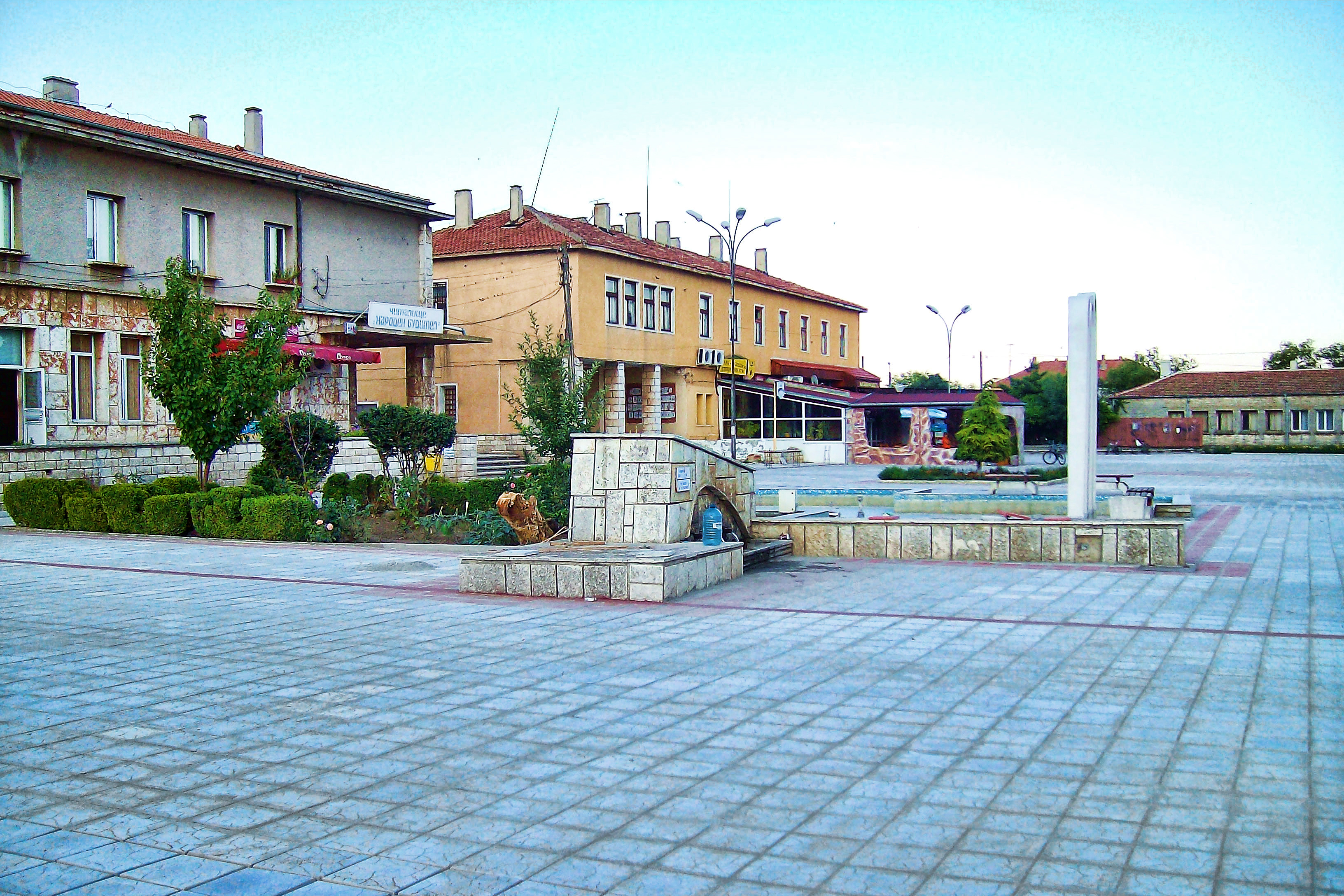 The central square of Balgarevo, Bulgaria.